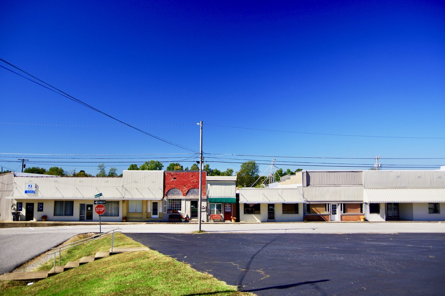 Businesses along Walnut Street in Arlington, Kentucky, United States.